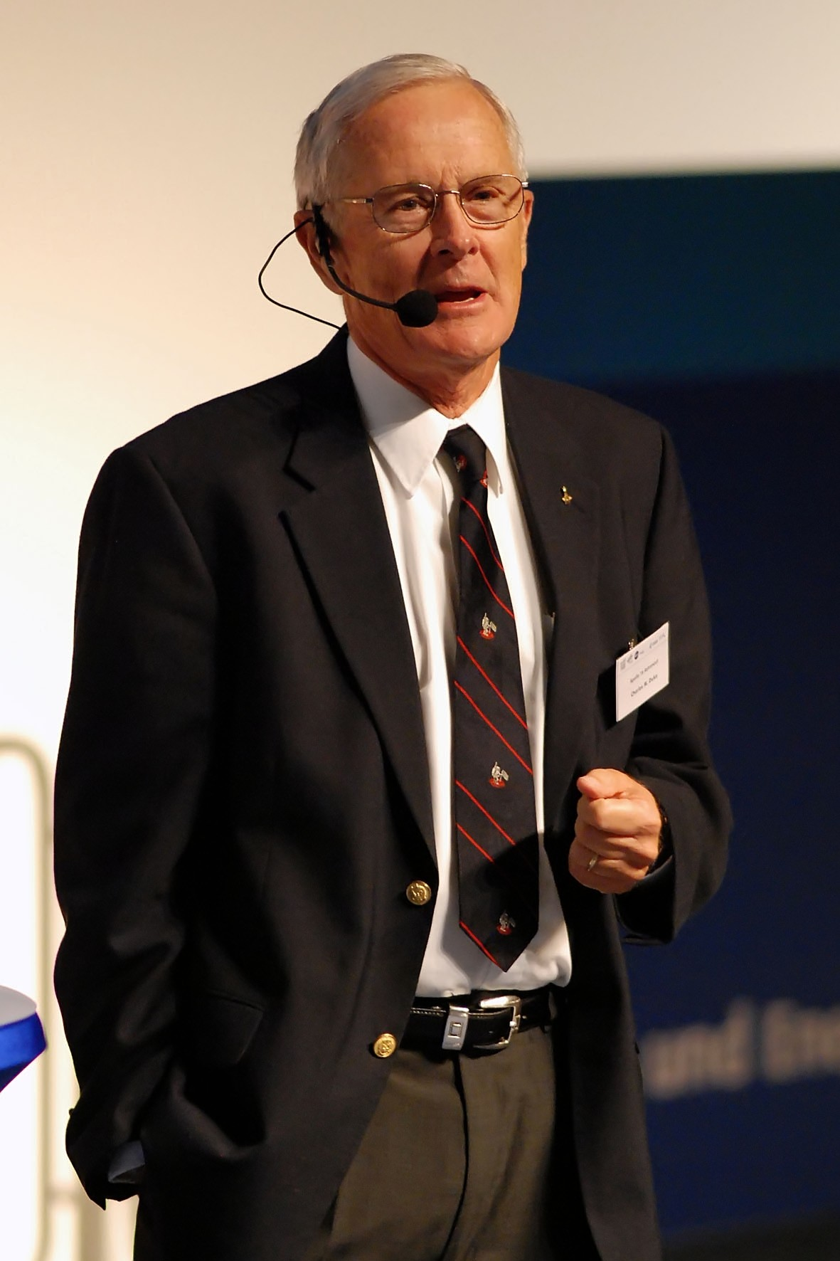 Charles Duke